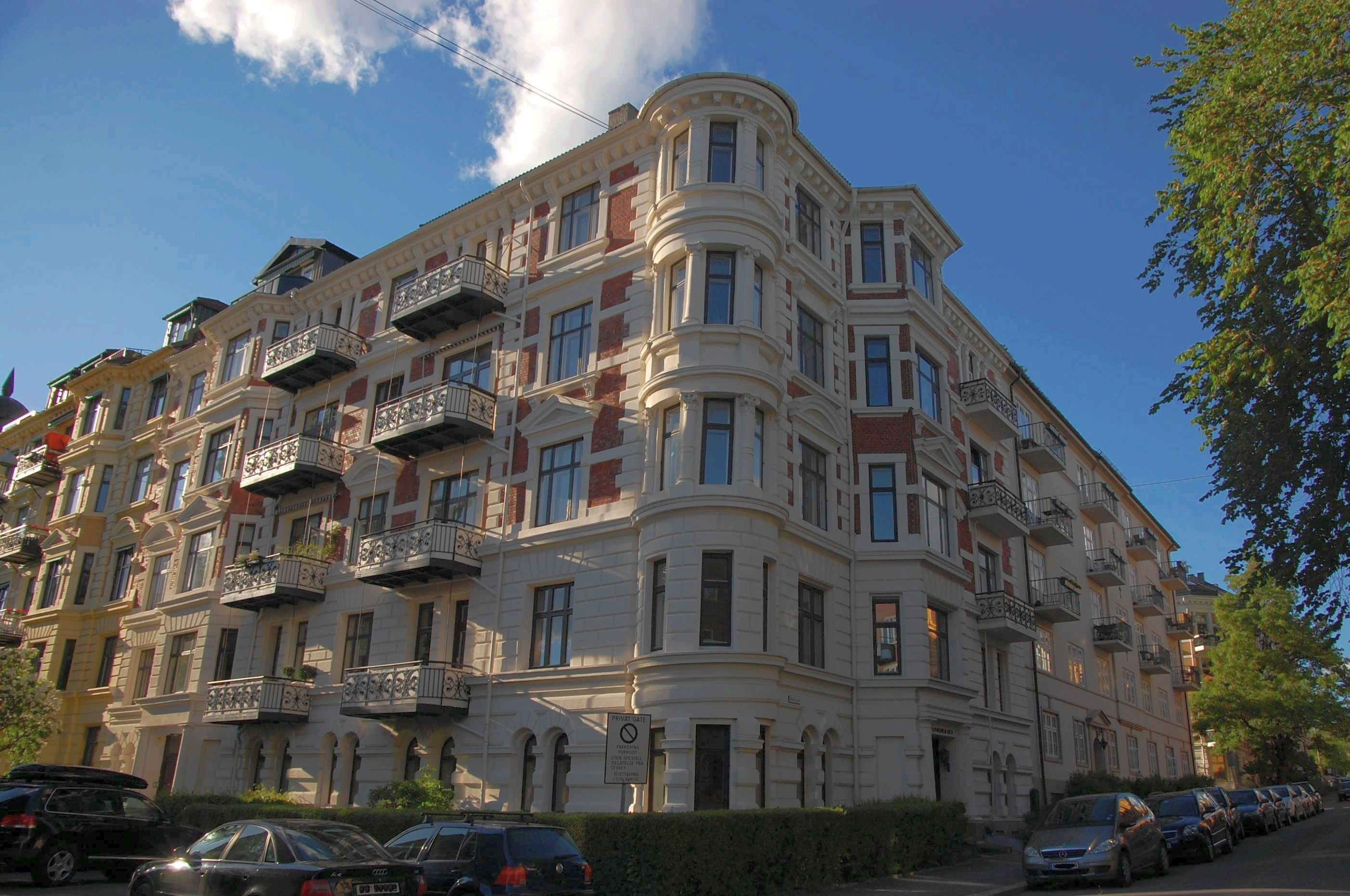 Svoldergata 7, Skillebekk in Oslo